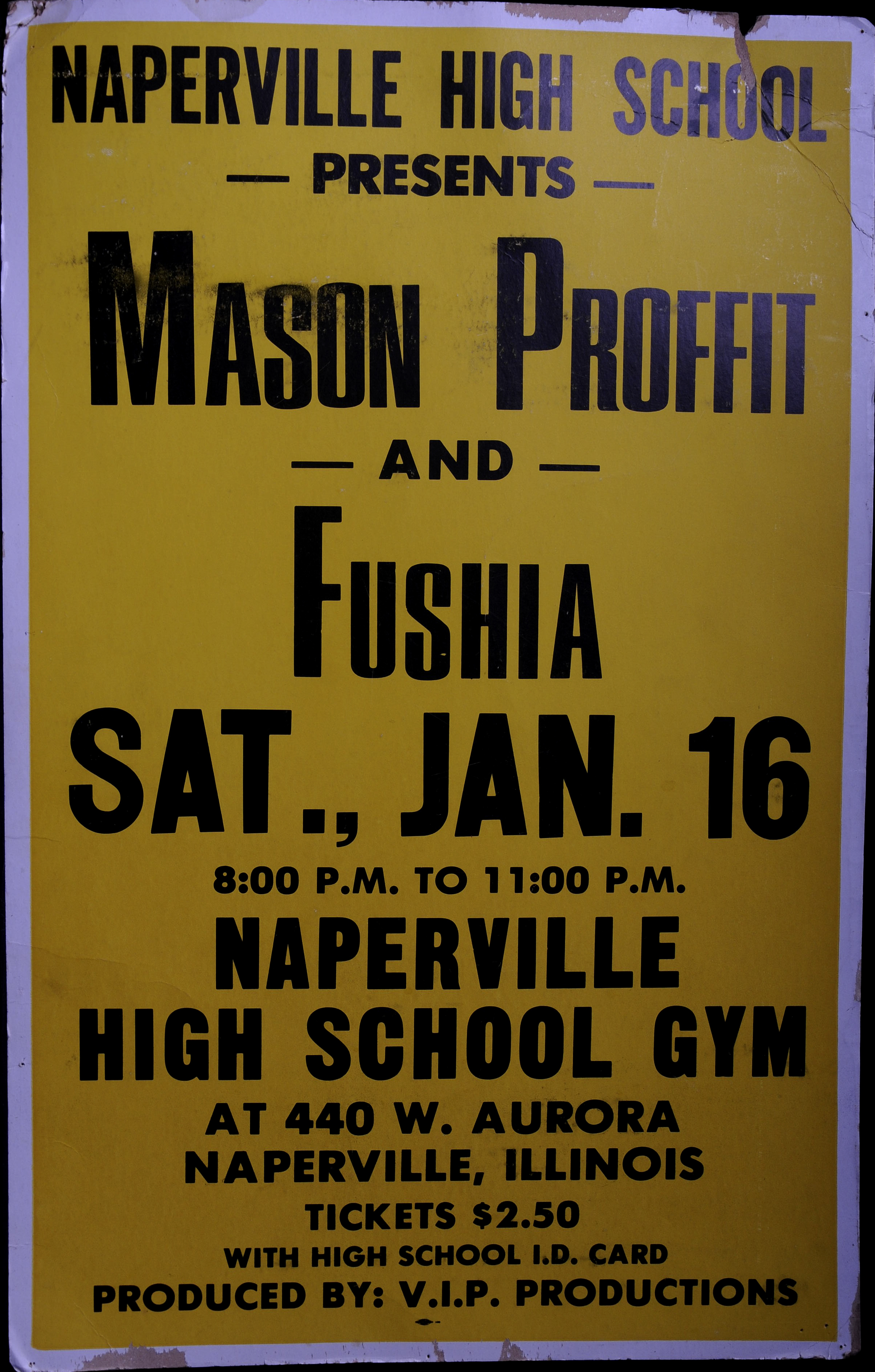 Concert Poster circa 1970